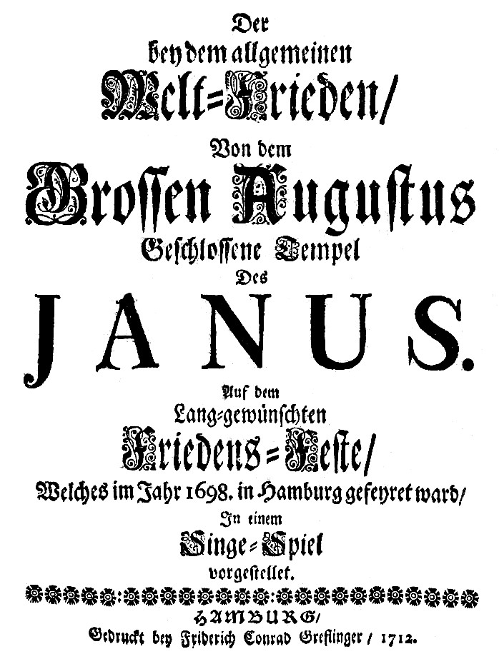 Reinhard Keiser - Der Tempel des Janus - titlepage of the libretto from 1712